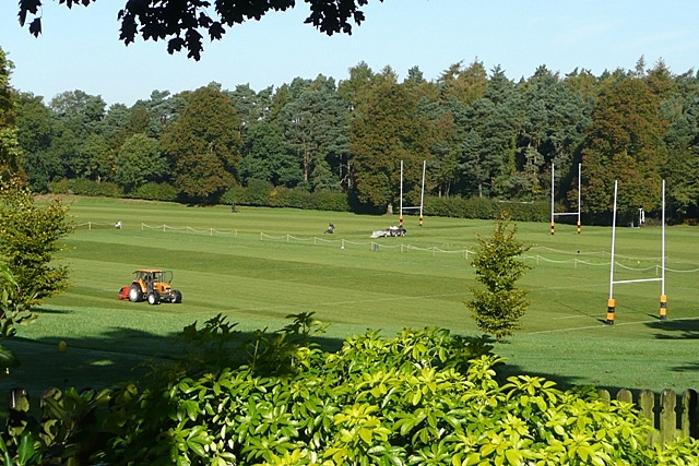 Oratory school playing fields The groundsmen go about their business of keeping the playing fields in perfect condition.